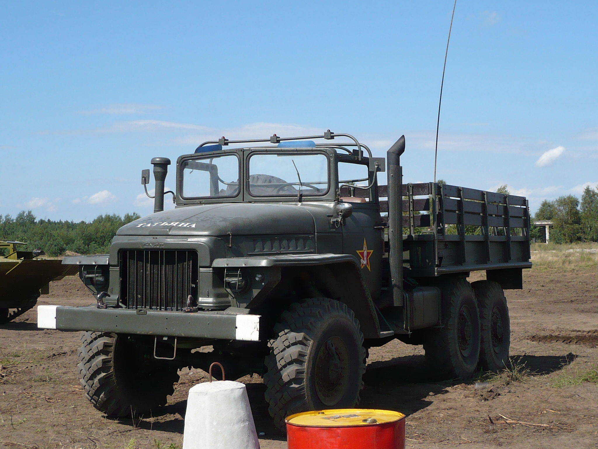 Ural-375 at the International Gathering of Military Vehicles 2007 in Borne Sulinowo, Poland